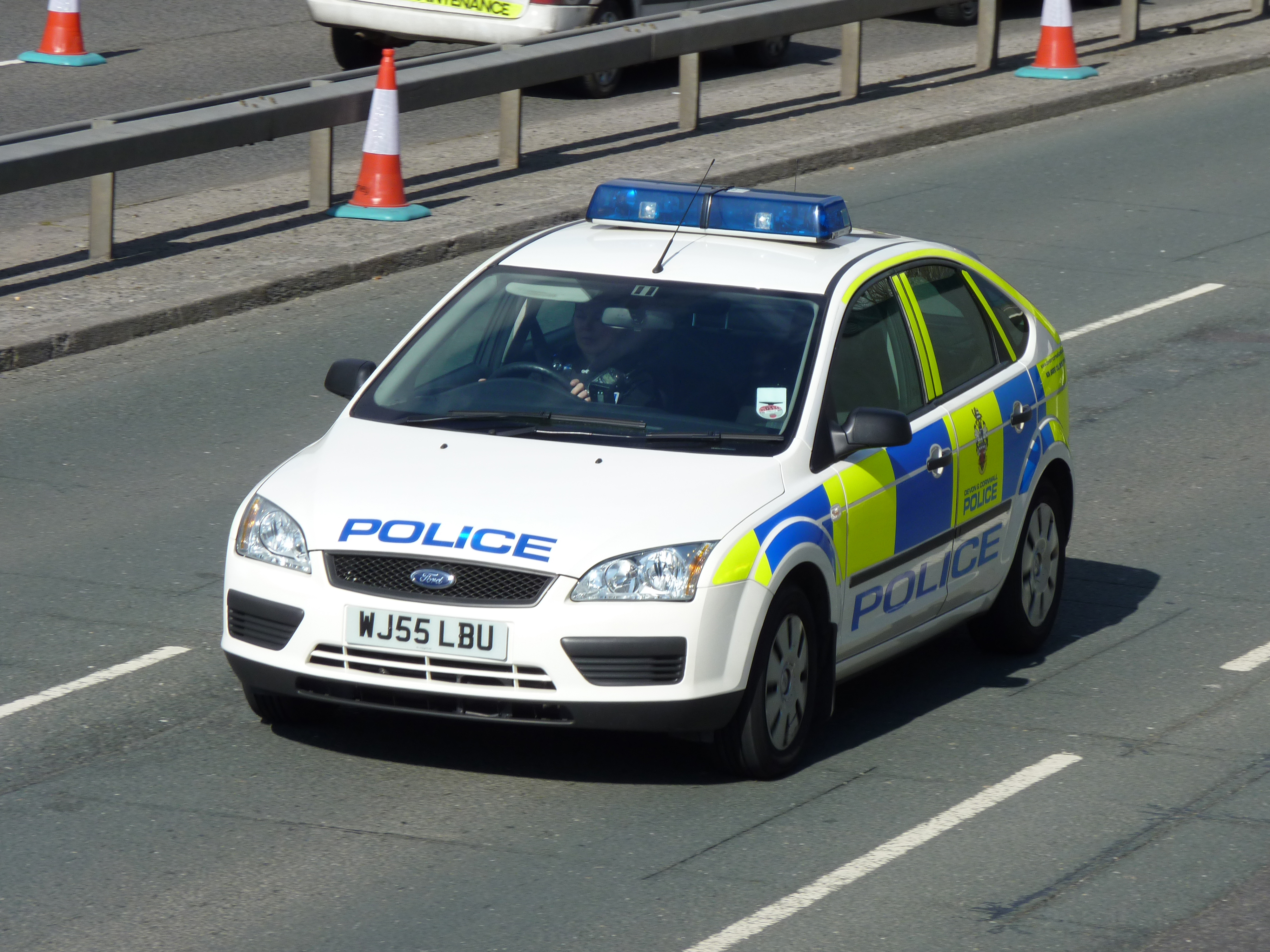 15 March 2010 Crownhill Plymouth